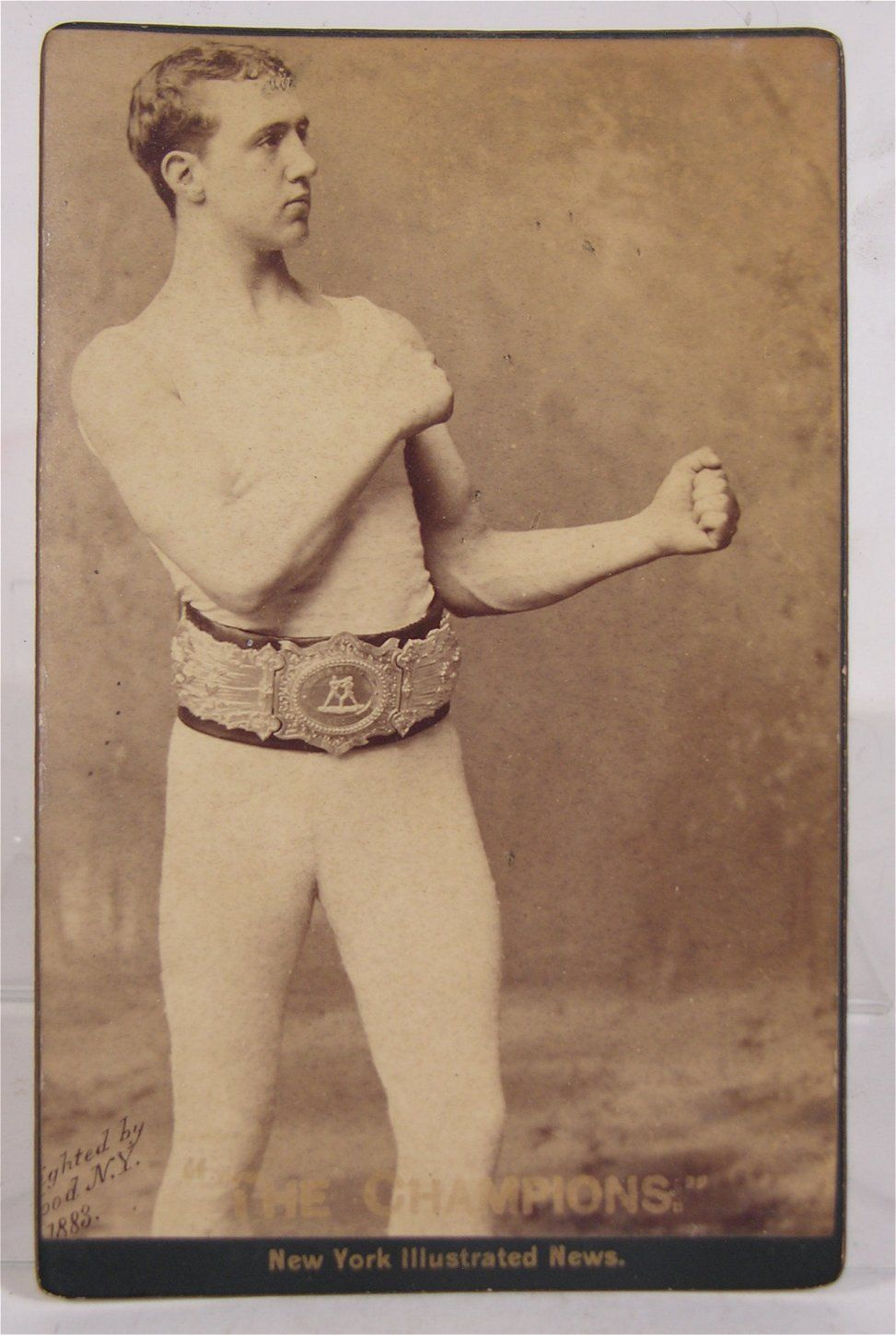 Cabinet card photograph of boxer Charley Mitchell